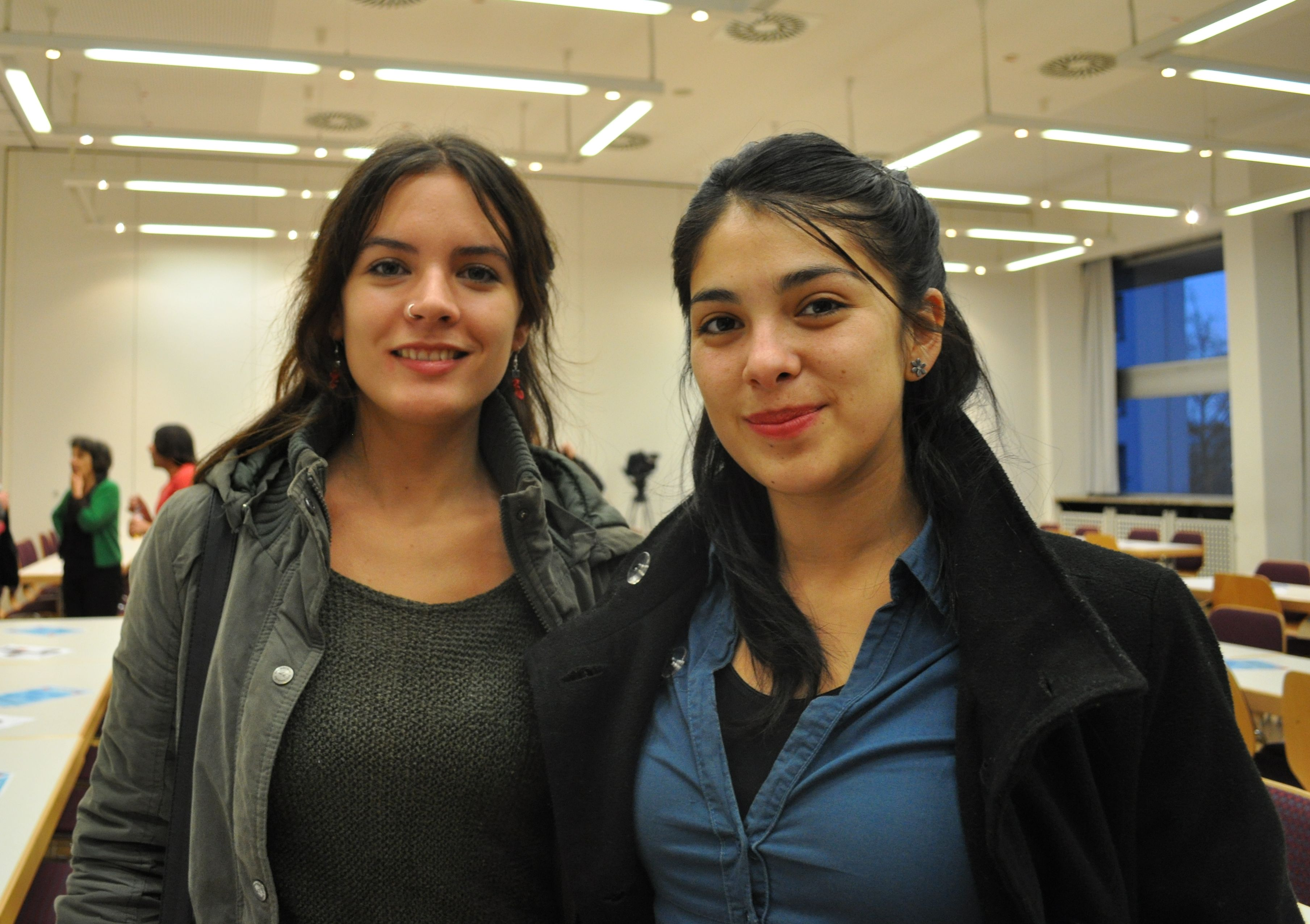 Camila Vallejo and Karol Cariola, Frankfurt (2012)